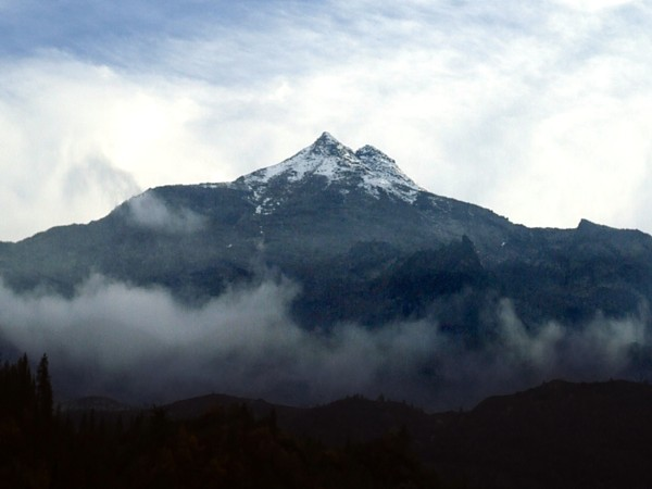 Pizzo Bianco (3215 m) Picture taken by user Idéfix october 2006